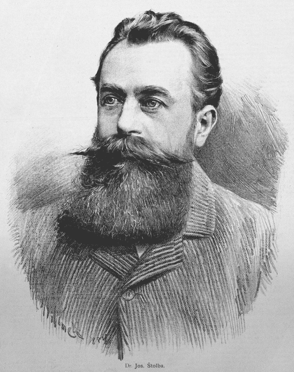 Portrait of Josef Štolba, Czech playwright